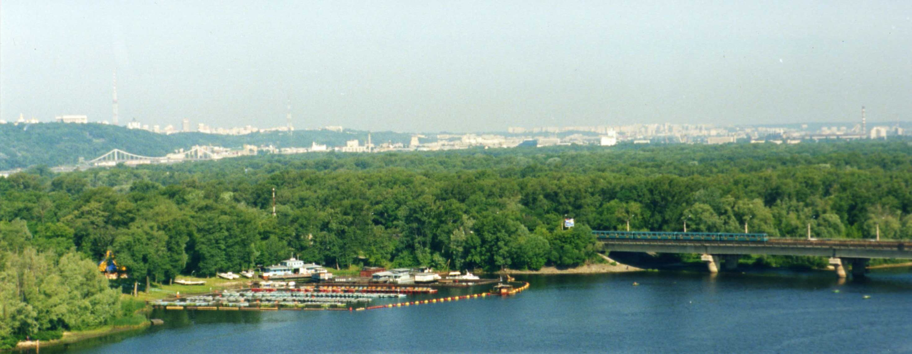 View of Kiev with Hidropark, from Rusanivska Naberezhna.